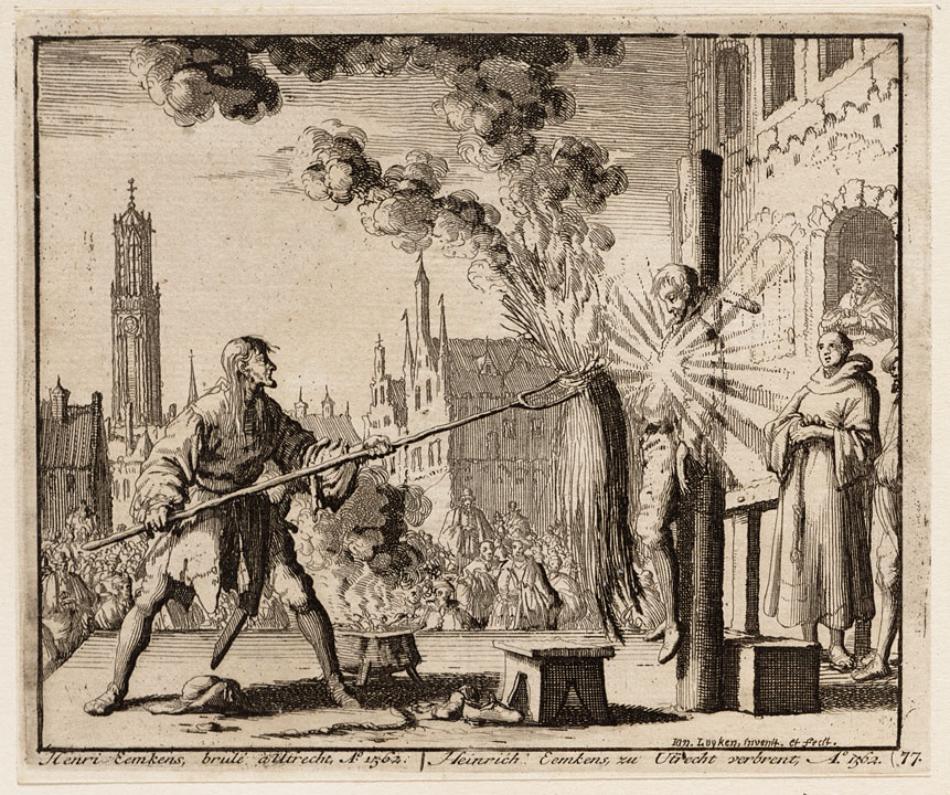 Execution of the Anabaptist Hendrik Eemkens in 1562 in the city of Utrecht